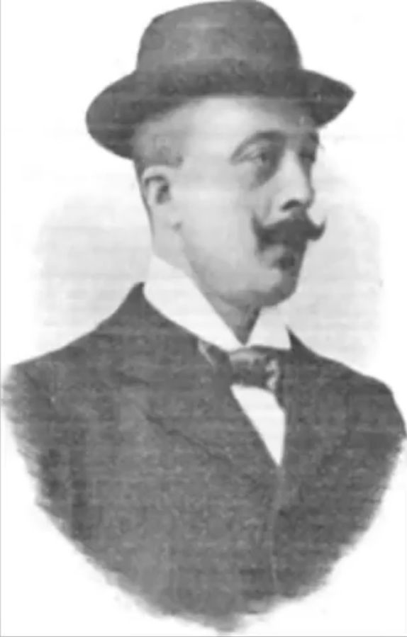 Self portrait from Victor De la Montagne